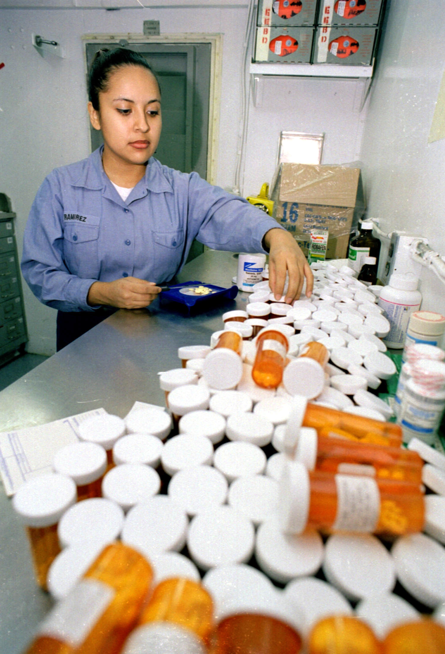 At sea aboard USS Theodore Roosevelt (CVN 71) May 23, 1999 -- Hospital Corpsman Isabel Ramirez from Los Angeles, California prepares hundreds of prescriptions for care of the crew. The USS Theodore Roosevelt (CVN 71) medical department administers care to a crew of over five thousand sailors. Theodore Roosevelt is operating in the Adriatic Sea in support of Operation Allied Force. U.S. Navy photo by Photographer’s Mate 2nd Class Steven Harbour. (RELEASED)